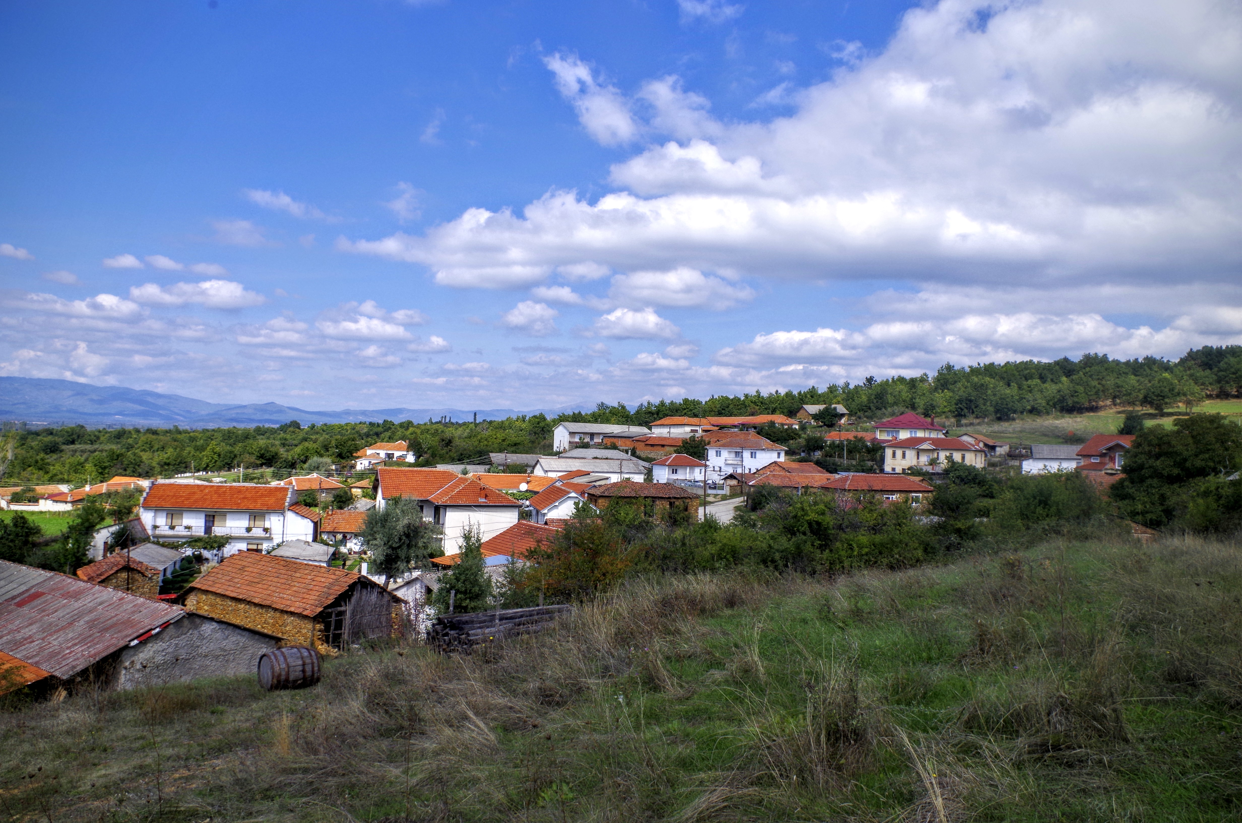 View of the village Rajca